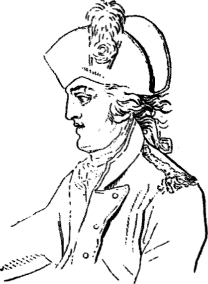 Portrait of Antoine Joseph Santerre, a Republican general during during the French Revolution.